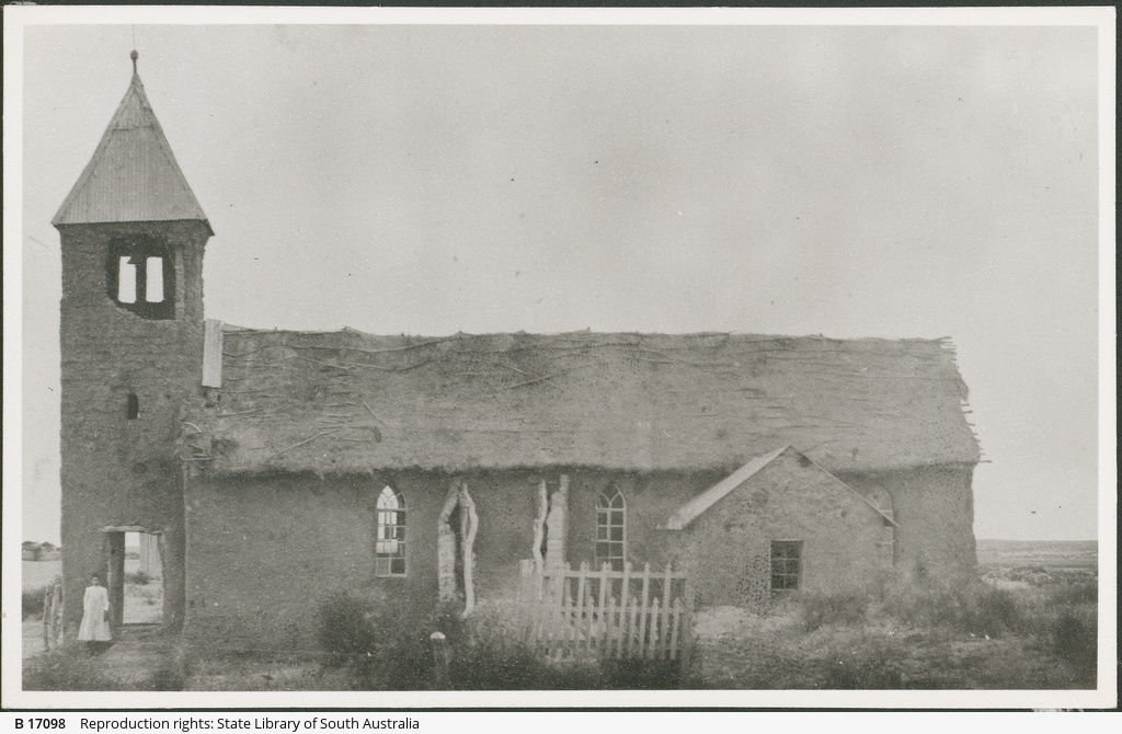 Photograph of the church at the Killapanninna Mission in the Far North of South Australia